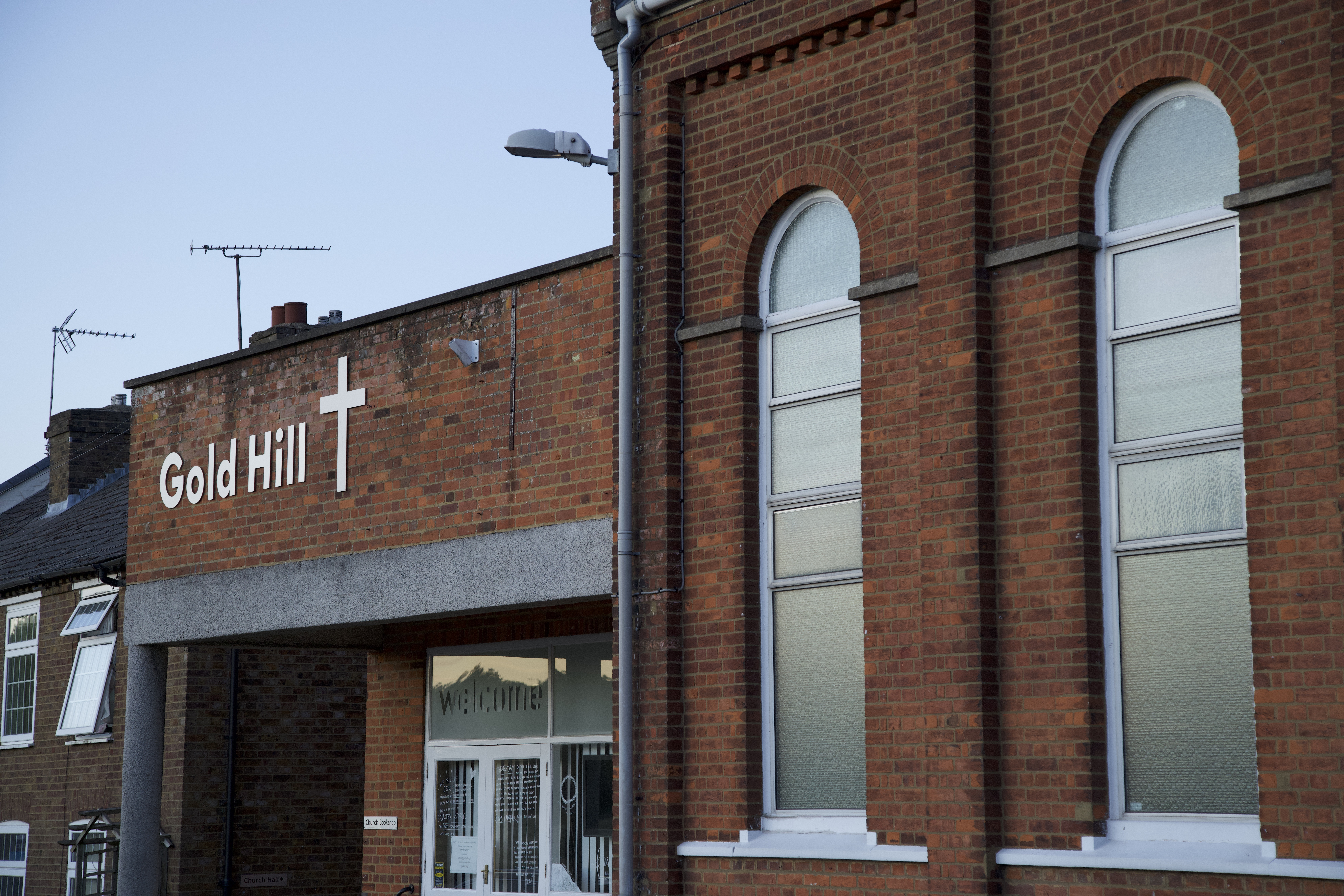 A photo of Gold Hill Baptist Church in Chalfont St Peter. Taken in the late evening in May 2020.